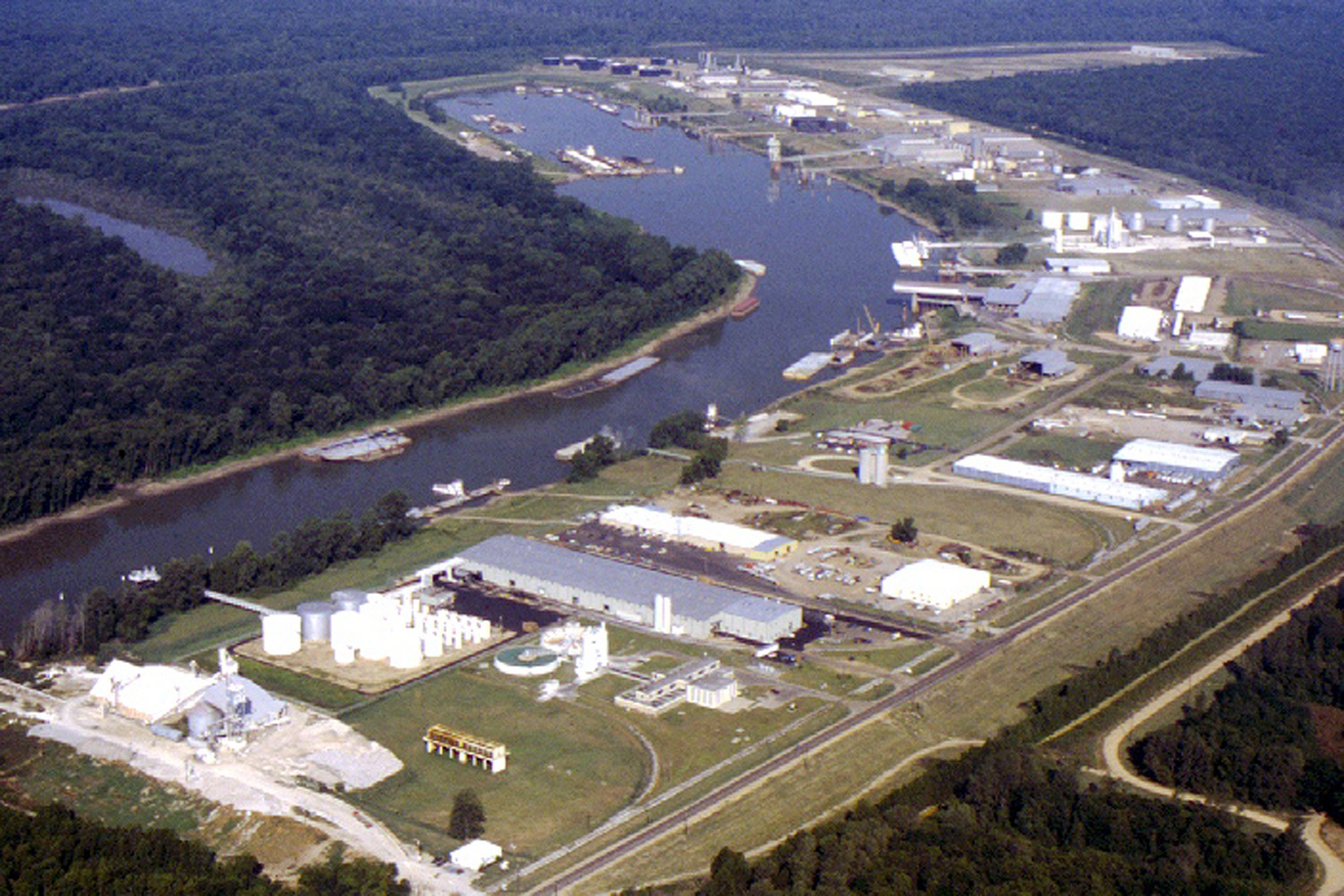 Aerial view of the Vicksburg Harbor, which is located on an arm of the Mississippi River at Vicksburg, Mississippi, USA. The harbor is located north of the main part of the city. View is to the west-northwest.